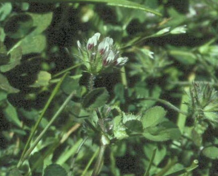 Trifolium trichocalyx USFWS photo